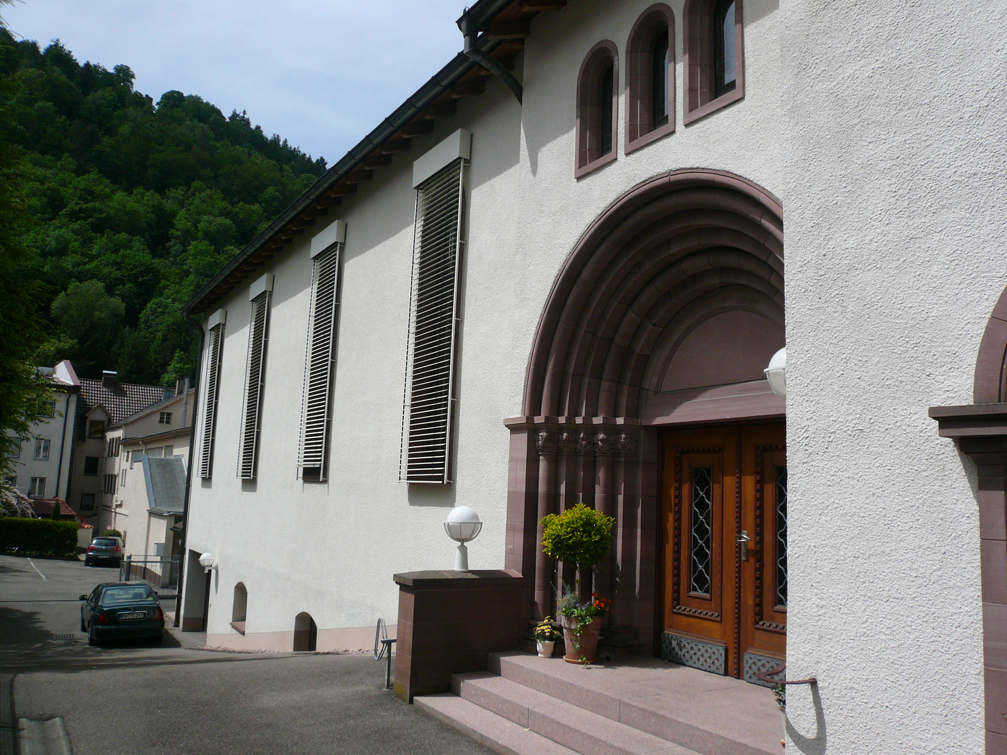 New Apostolic Church, Schramberg, Germany